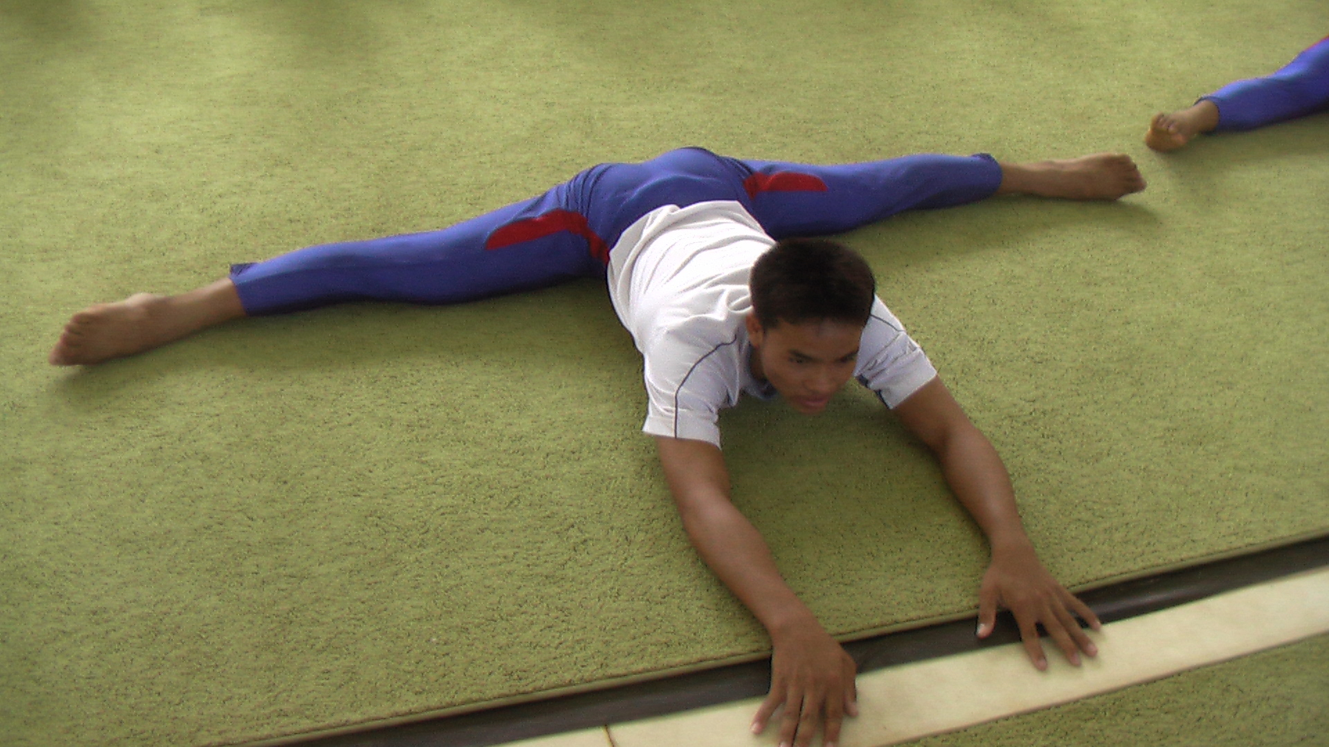 Gymast training in Cambodia.